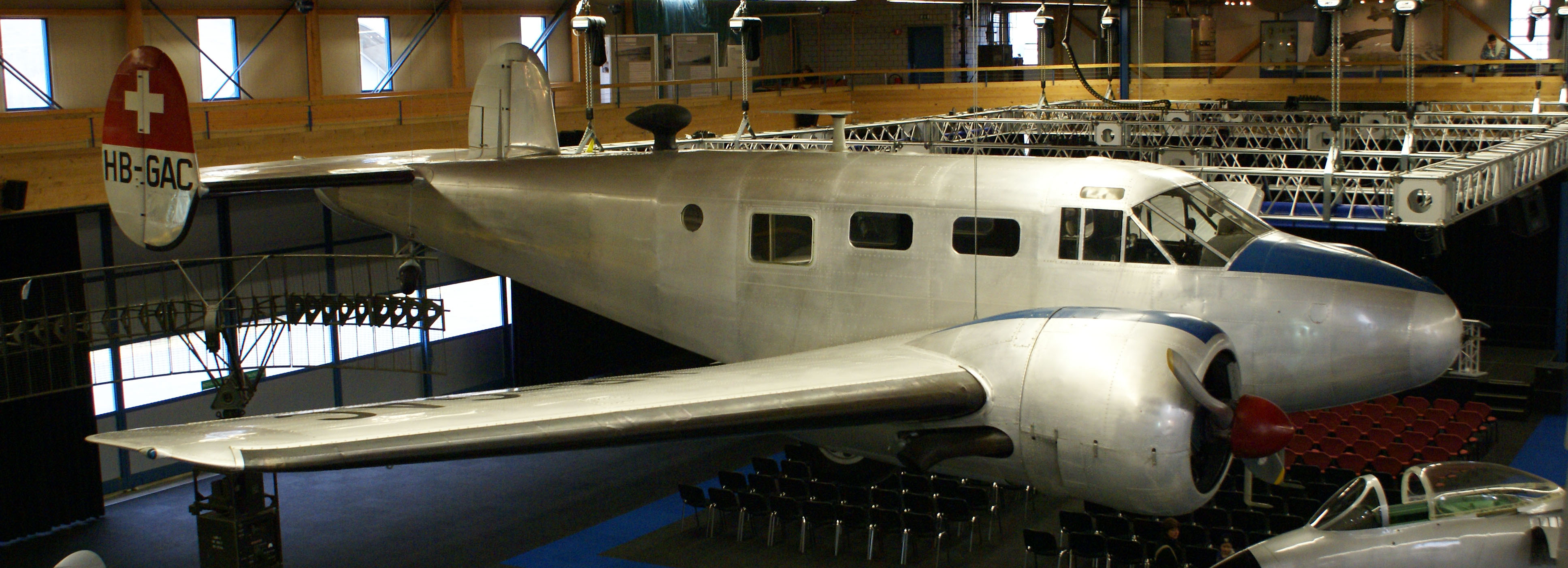 Swiss Air Force Beechcraft Model 18 (C-45F, C-18S) as used by the Swiss Air Force and the Swiss Federal Office for National Topography from 1948 to 1967.